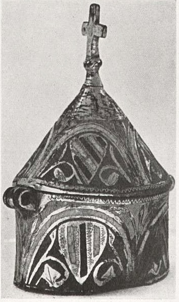 Pyxis, romanisch, um 1200, gefunden auf dem Donnersberg